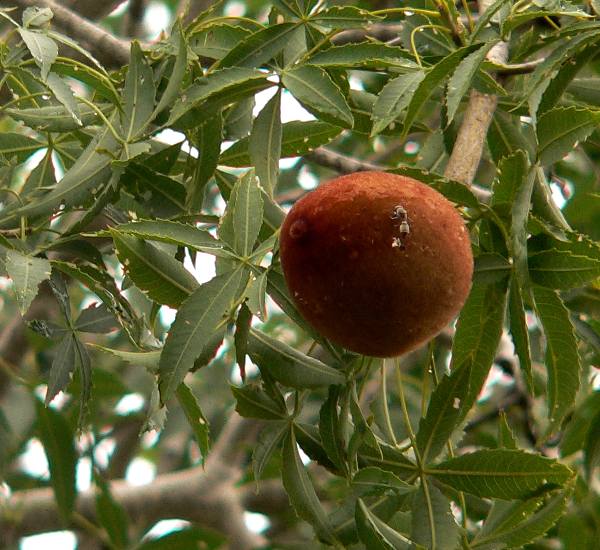 Adansonia rubrostipa (Malvaceae), fruit, spiny forest at Mangily, western Madagascar